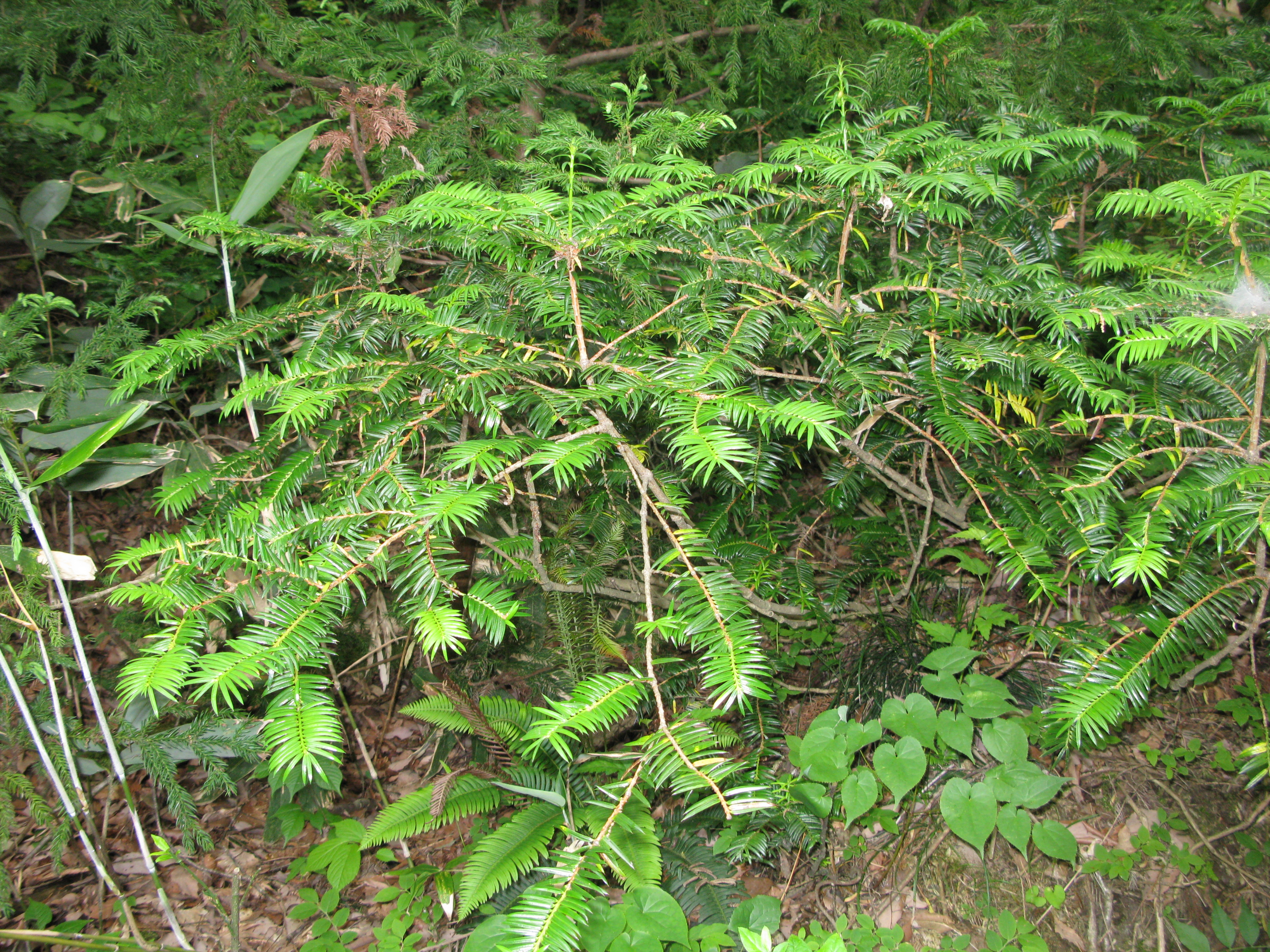 Torreya nucifera var. radicans, Aizu area, Fukushima pref., Japan